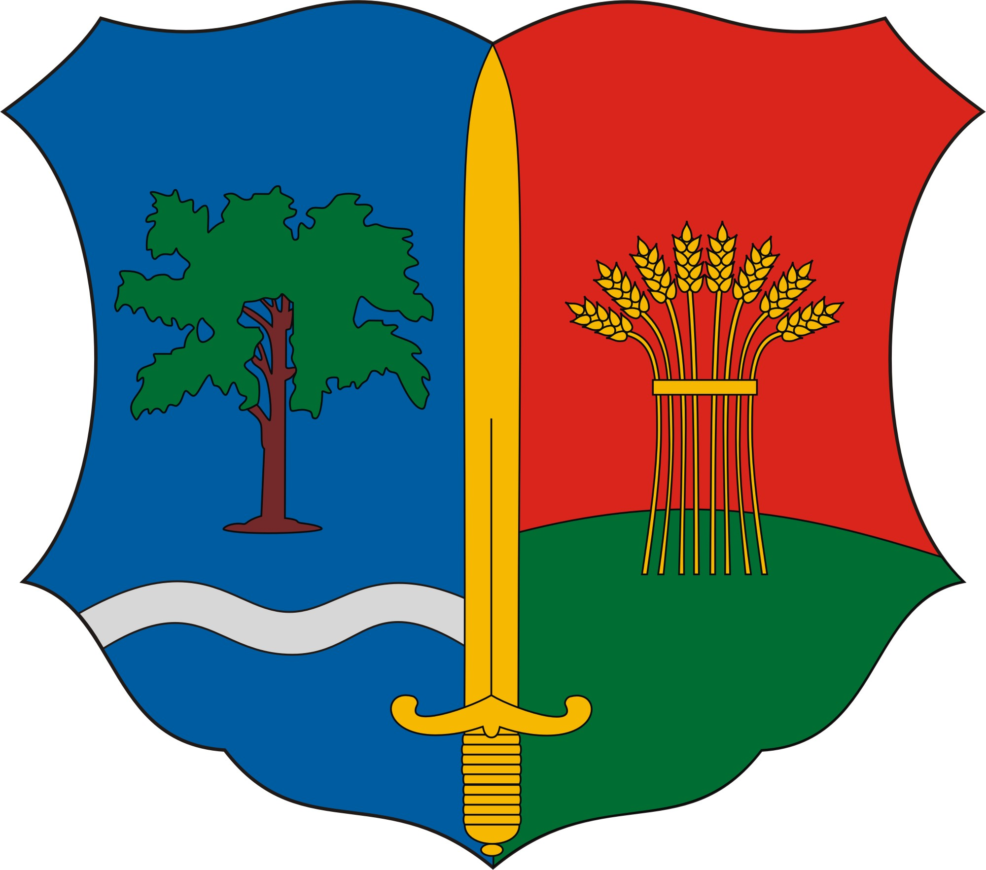 Coat of arms of Várong, Hungary